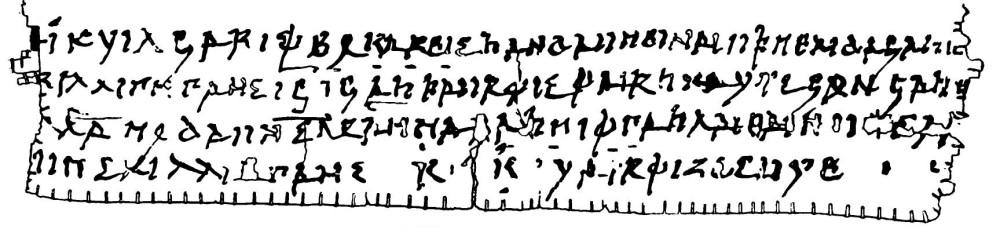 Naples Deed, a Gothic document from the 6th century